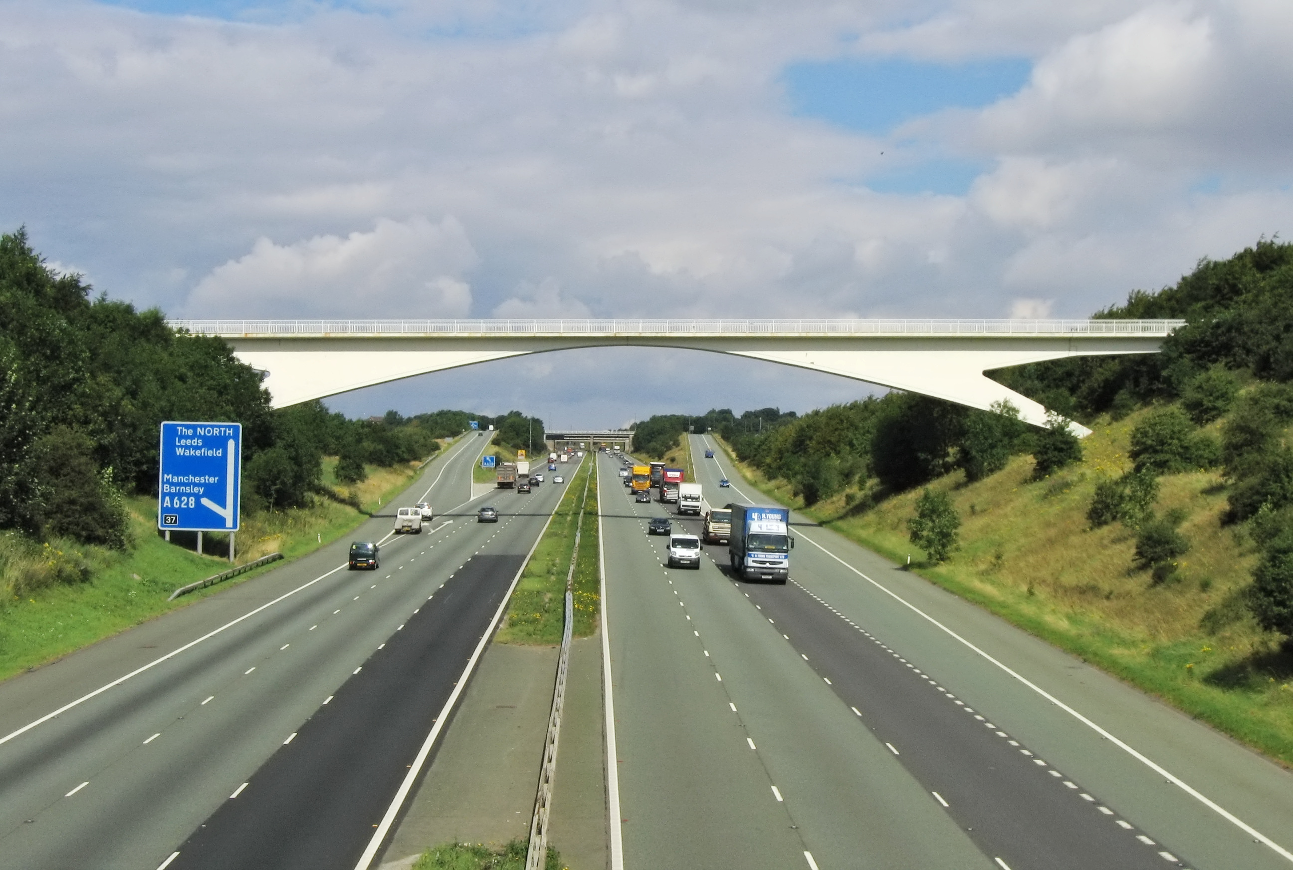 Motorway M1 in Yorkshire south of Leeds.